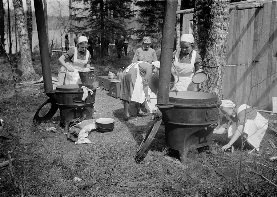 Volunteers from the Lotta Svärd organization prepare food for Finnish volunteers on a clearance camp shortly before the Continuation War.